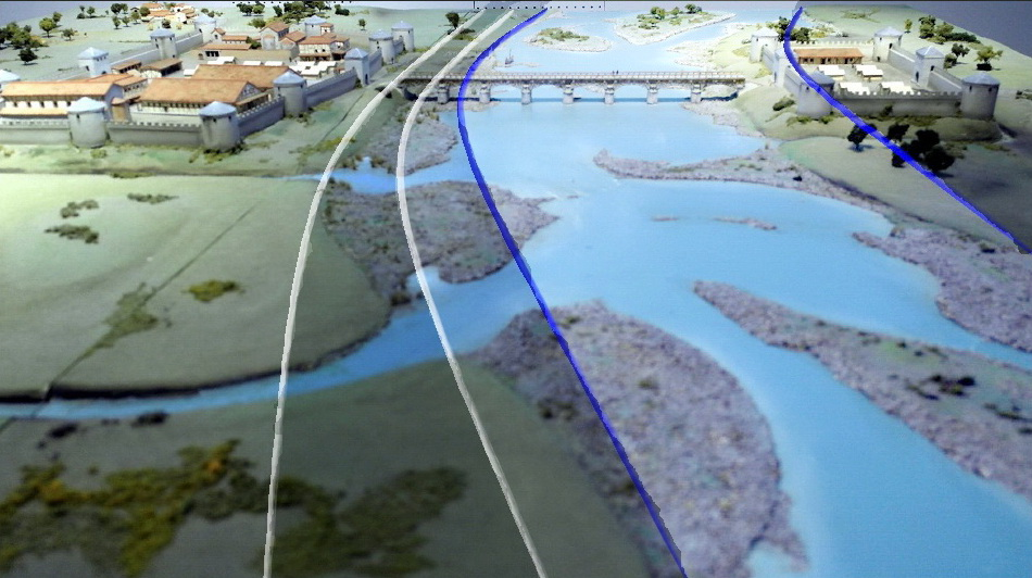 Edited view from the south of a scale model of Maastricht, Netherlands, in the late-Roman period, after the construction of the castrum (313 AD). The 1992 model by F. Schiffeleers is partly based on archaeological excavations (bridge, roads and castrum left bank), partly on extrapolation (Wyck castrum, some buildings). Photographed in Centre Céramique, November 2014. The added blue lines mark the approximate modern river banks of the Meuse. The white lines mark the approximate location of the Maasboulevard on the left bank.